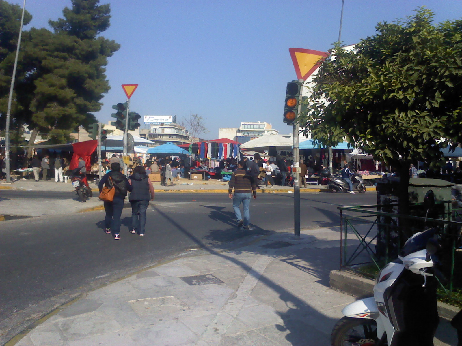 Sunday Market Paliatzidika